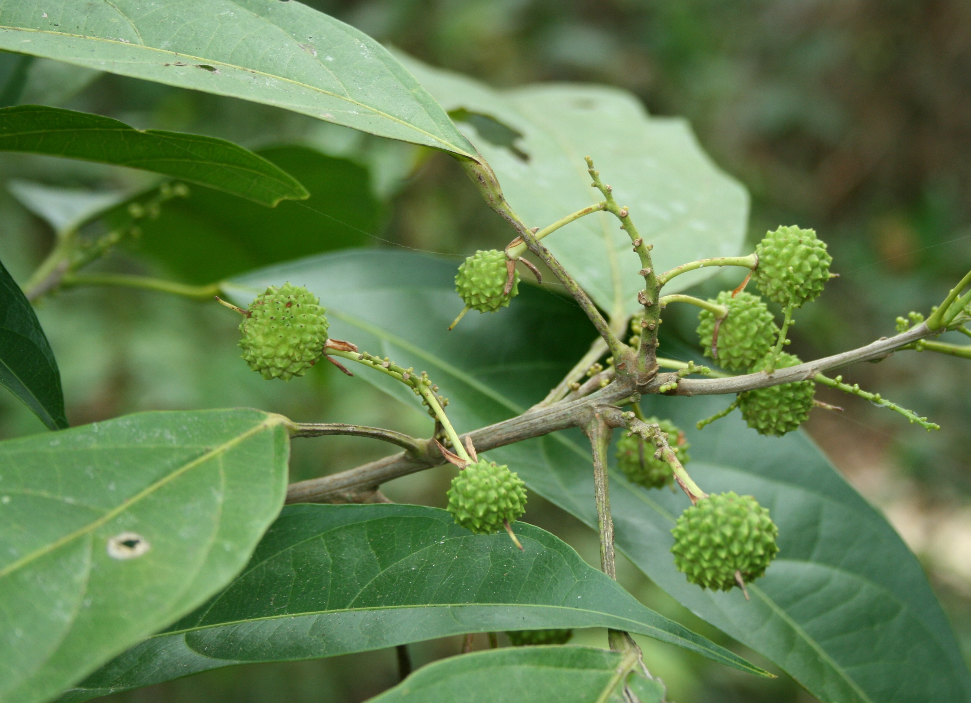 Fruiting branch of the Lindackeria paludosa (family Achariaceae), near Cacuri on upper Rio Ventuari, Venezuela